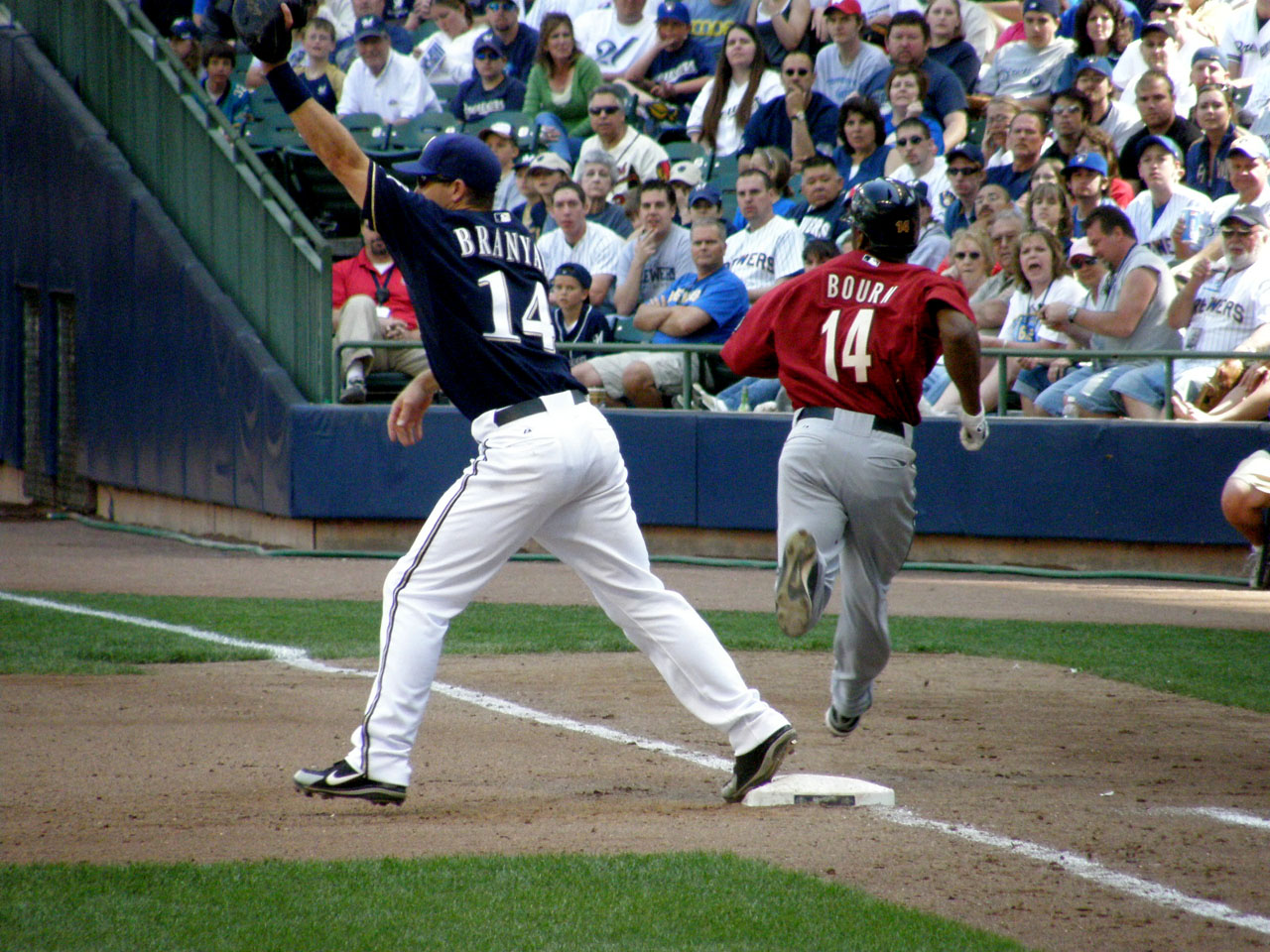 Russell Branyan covers first in this June match-up between the Milwaukee Brewers and the Houston Astros.